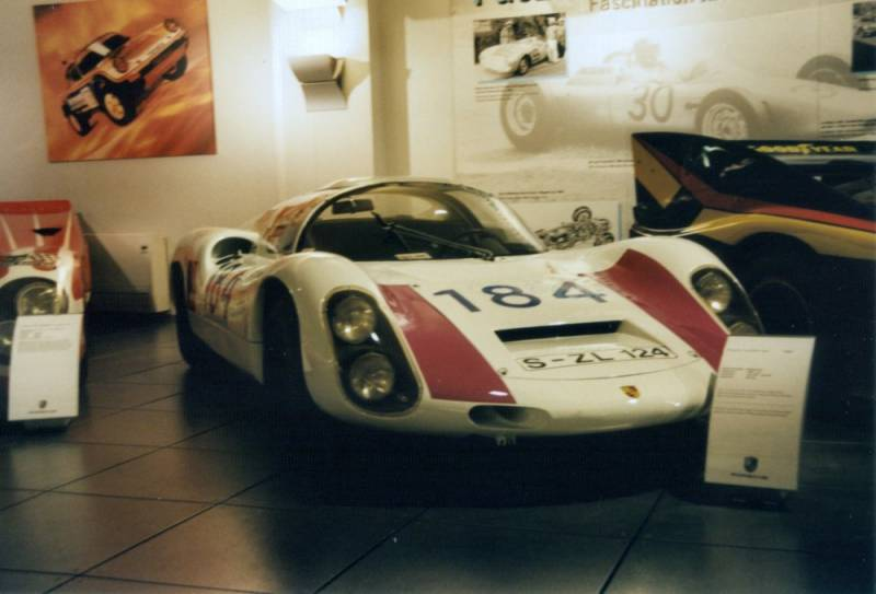 Porsche 910 2.0 coupé inside the Porsche Museum in Stuttgart Zuffenhausen. #184 and Stuttgart license plate "S-ZL 124" indicate the car was chassis 910-006 driven at the 1967 Targa Florio [1] by Umberto Maglioli and Udo Schütz [2]. Porsche Museum Native namePorsche-MuseumLocationStuttgartCoordinates48° 50′ 07″ N, 9° 09′ 06″ E Established1976 (old museum) 2009 (new museum)Web page control : Q328623 VIAF: 138511768 GND: 2087859-X SUDOC: 155641123 NKC: ko2015876799 institution QS:P195,Q328623